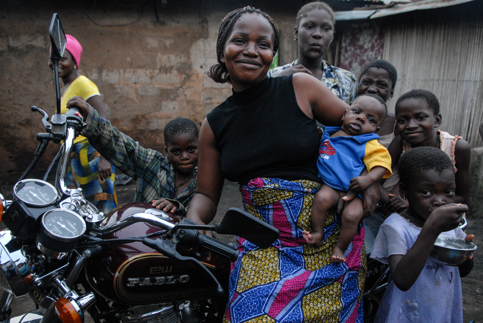 This is an image with the theme "Africa on the Move or Transport" from: Benin